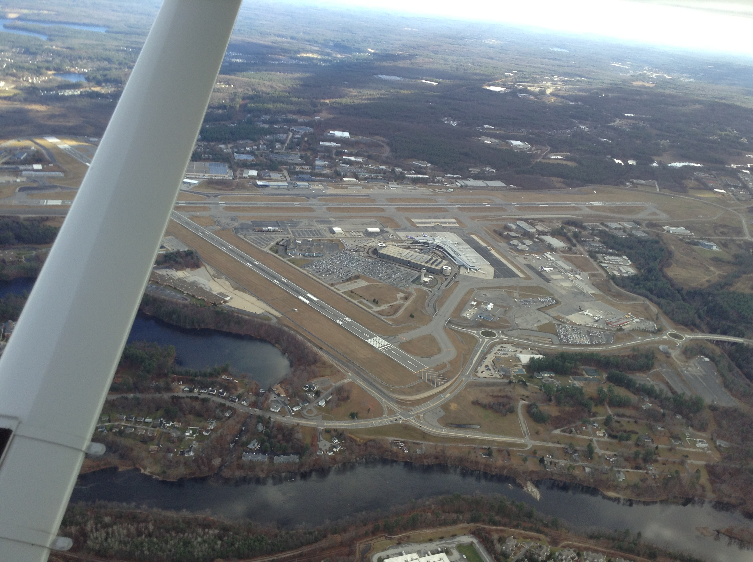 Aerial photograph of Manchester-Boston Regional Airport from Civil Air Patrol airplane.